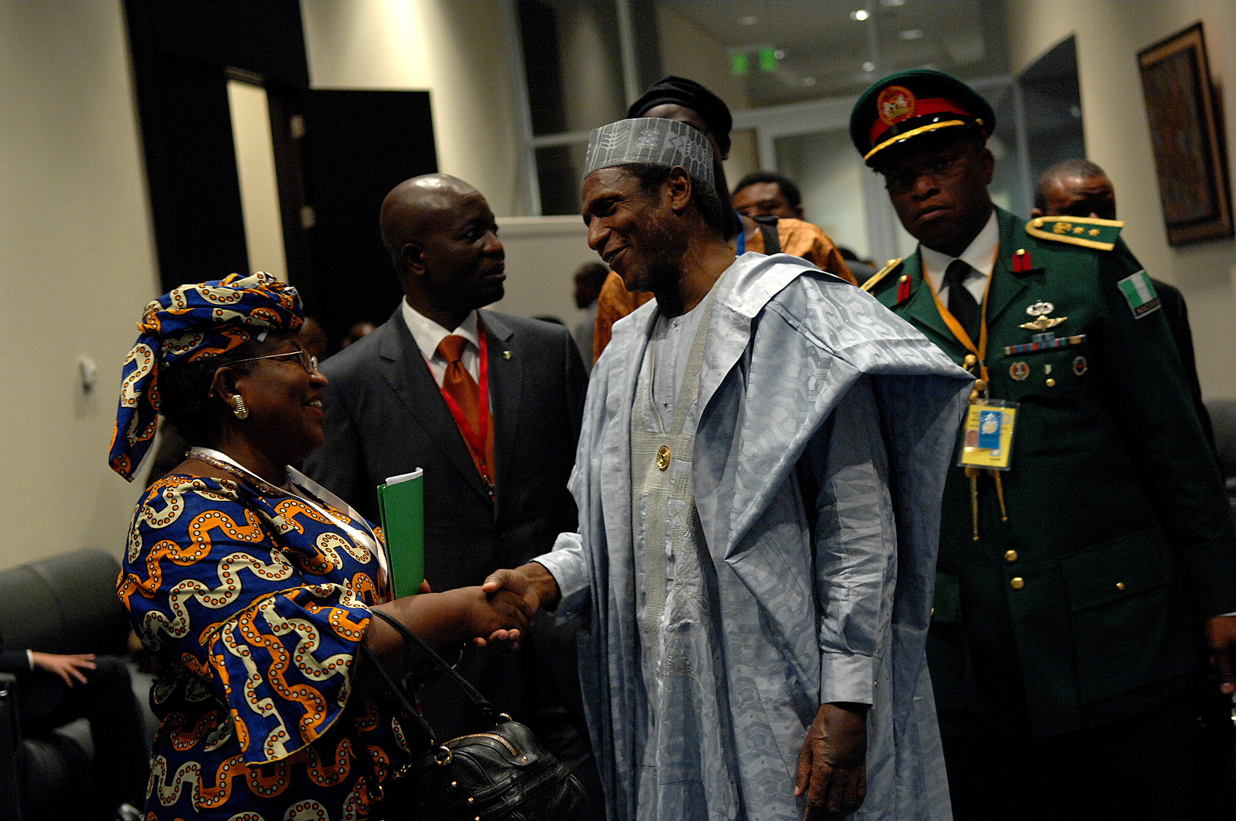 Nigeria President Alhaji Yar'Adua talks with Ngosi Okonjo-Iweala, managing director of the World Bank, during the 11th Ordinary Session of the Assembly of the Union at the African Union Summit June 30, 2008 in Sharm El Sheikh, Egypt.